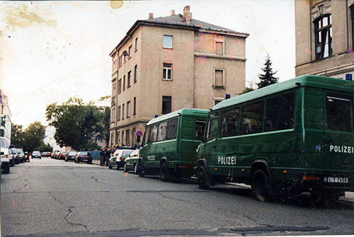 Squatting the RM16 October 1999